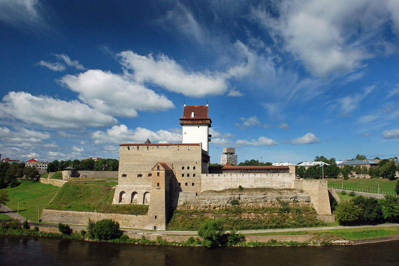 Hermann Castle